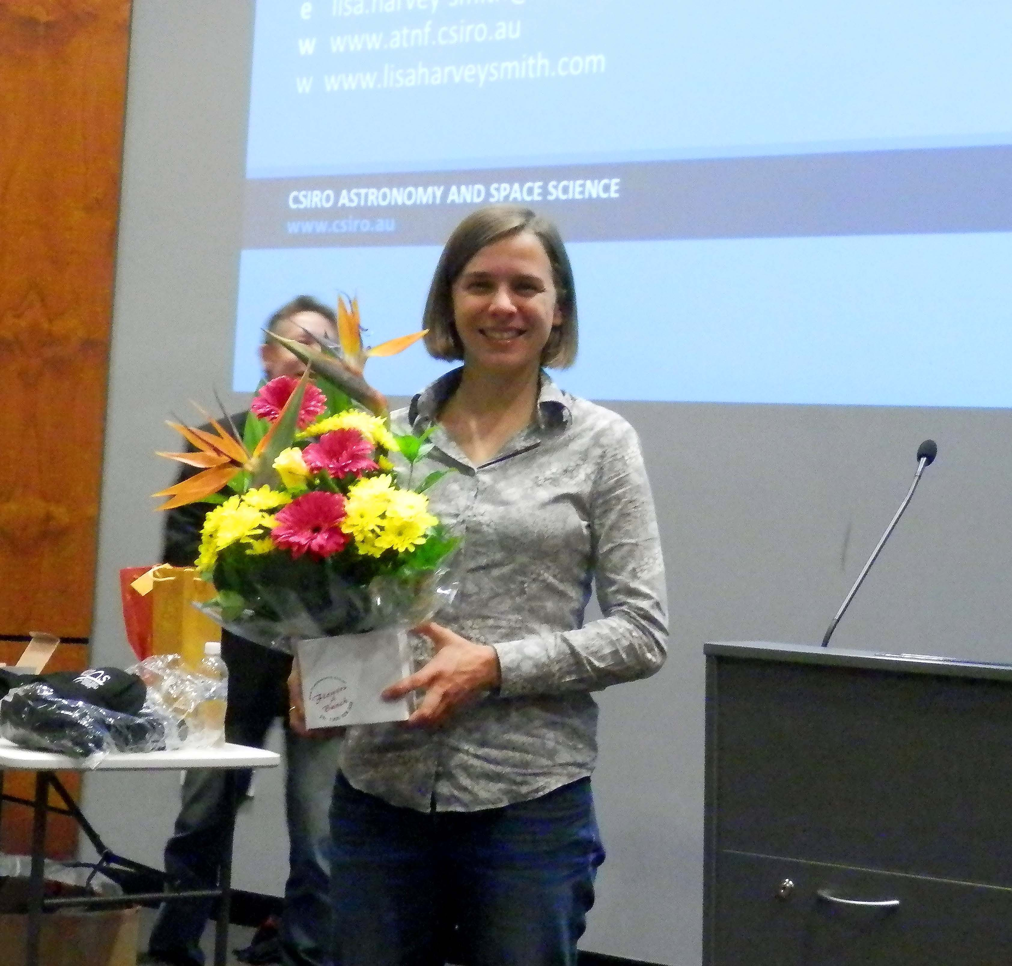 Dr Lisa Harvey-Smith was guest speaker at Macarthur Astronomical Society